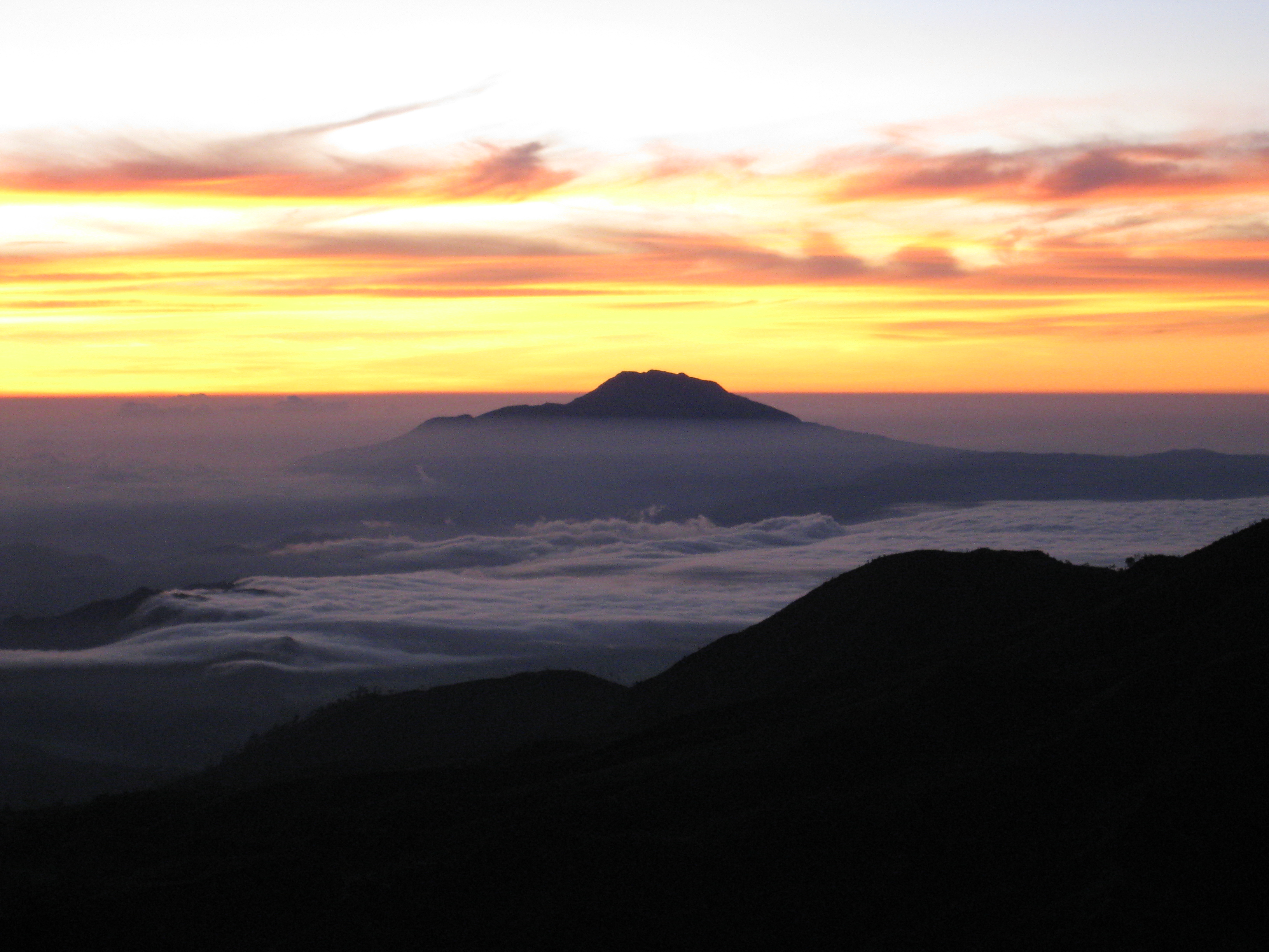 Dieng Sunrise